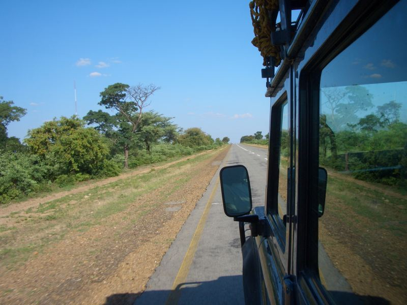 Driving in the Caprivi Strip, On the road from Grootfontein to Katima Mulilo